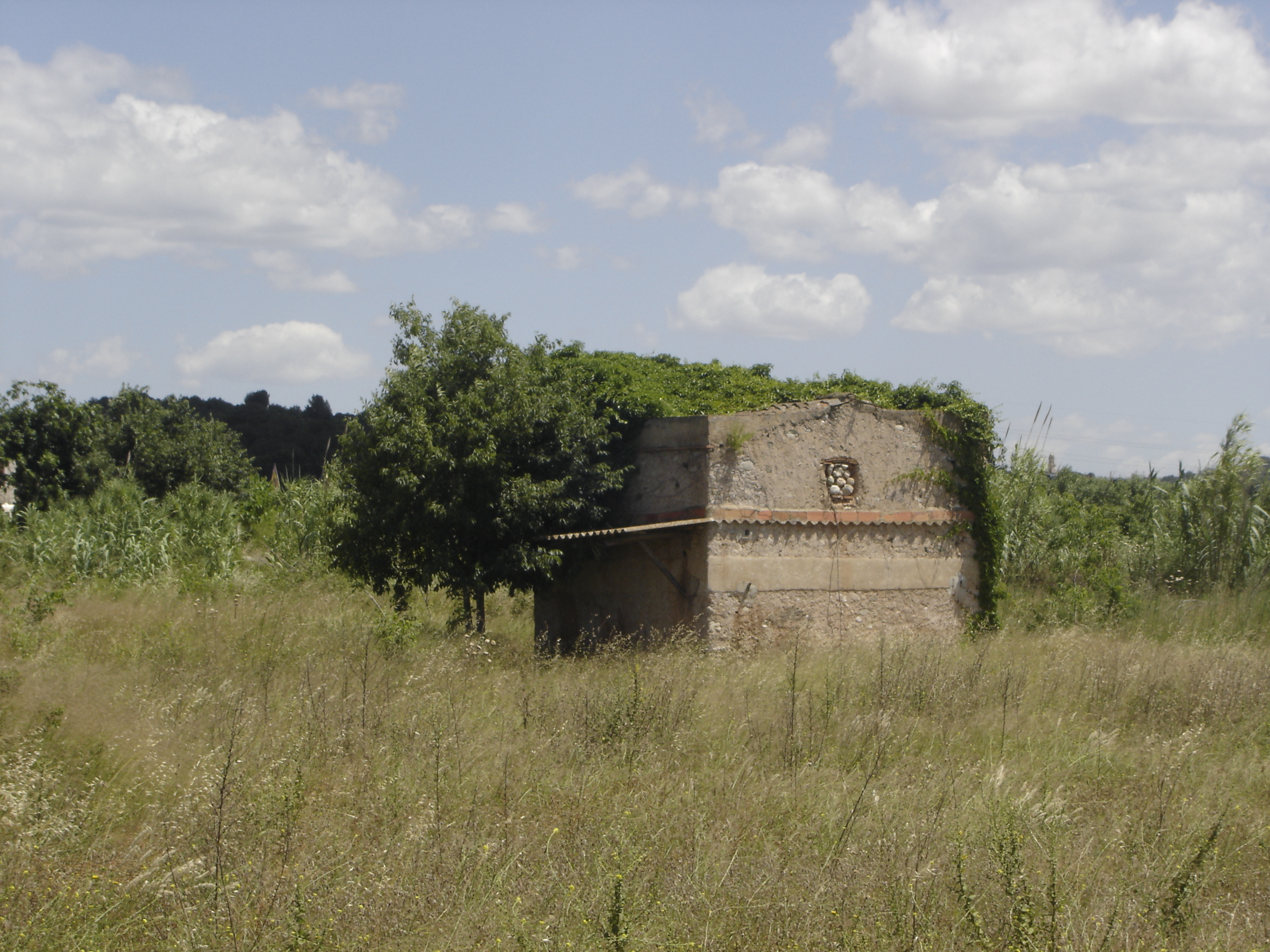 Mas d'Espardenya at El Rourell.